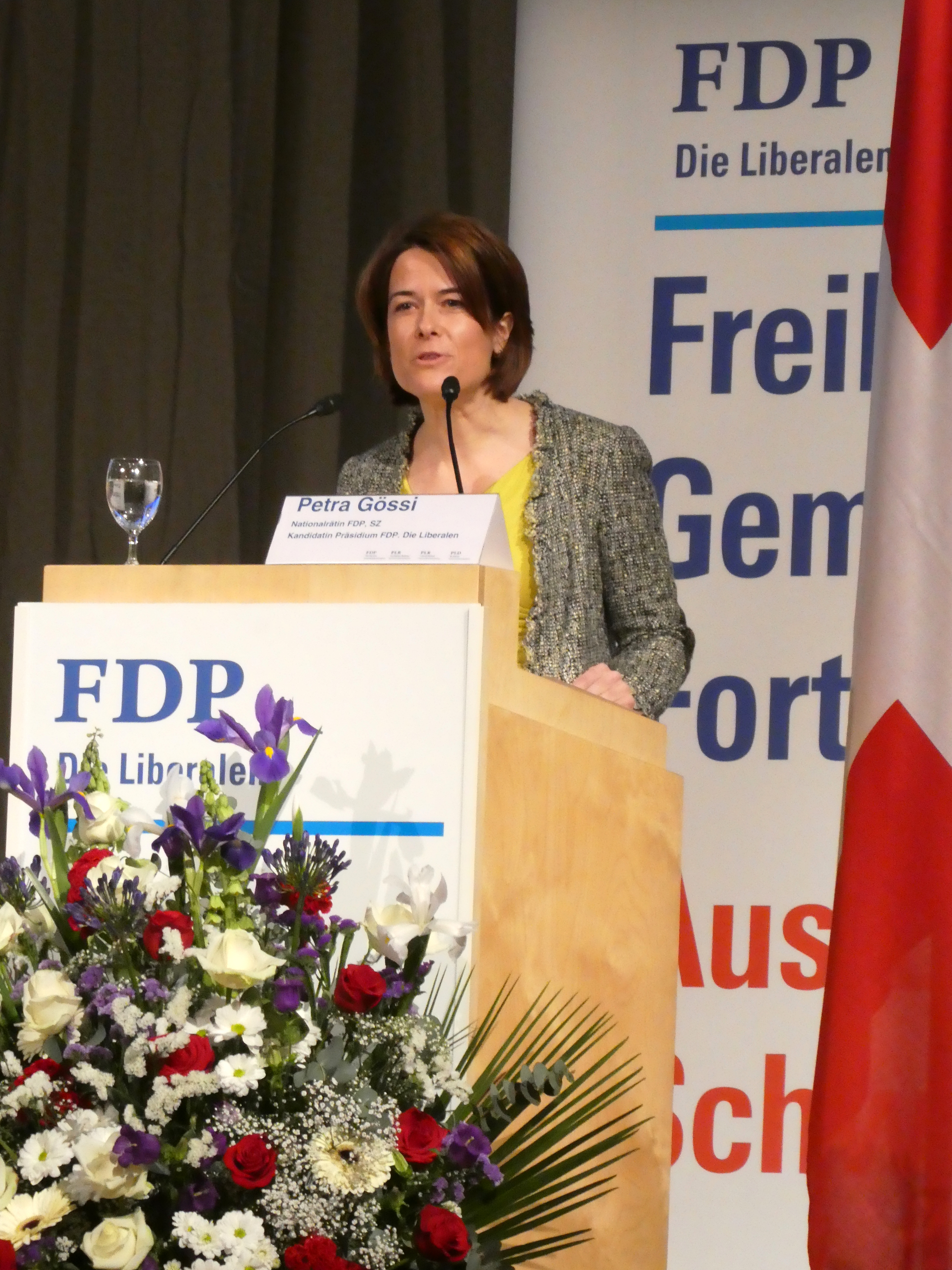 Petra Gössi, president of the Swiss political party "FDP.Dir Liberalen"